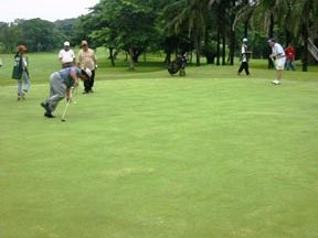 Puyat Golf Course! I, hereby state and certify, that this is my own work, which I took picture of on February 7, 2009 at San Jose del Monte City, Bulacan, Philippines.